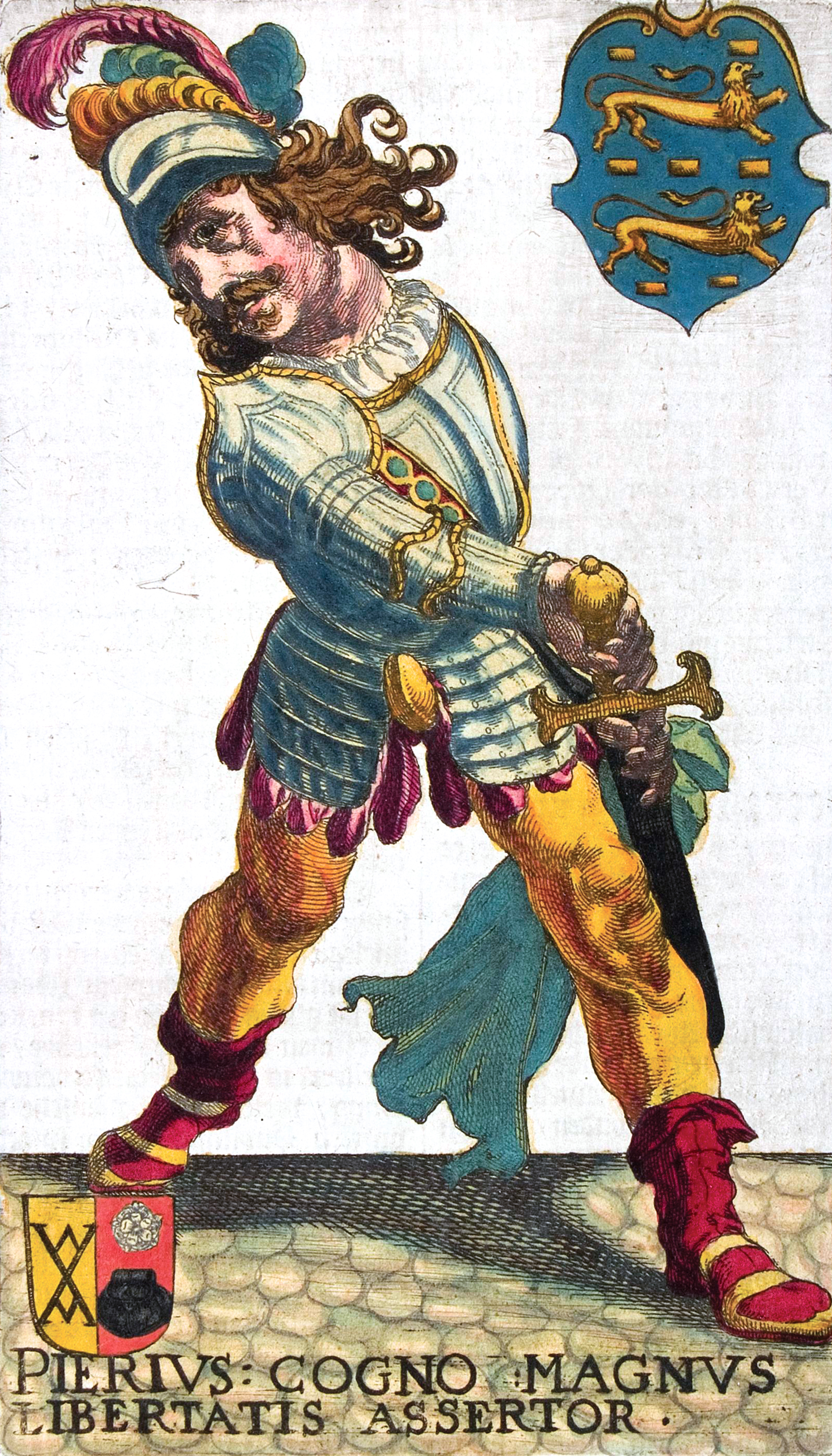 Image from an 1622, non-copyrighted historical book. It shows Pier Gerlofs Donia, or Grutte Pier, a Frisian freedom fighter, rebel and folk hero. It was made, over hundred years after the man depicted n it, died, so on ist historically accuracy might be some discussion (although it shows us an accurant painting of he man, he ain't whearing 16th centure clothes, but is dressed in 17th century clothing).